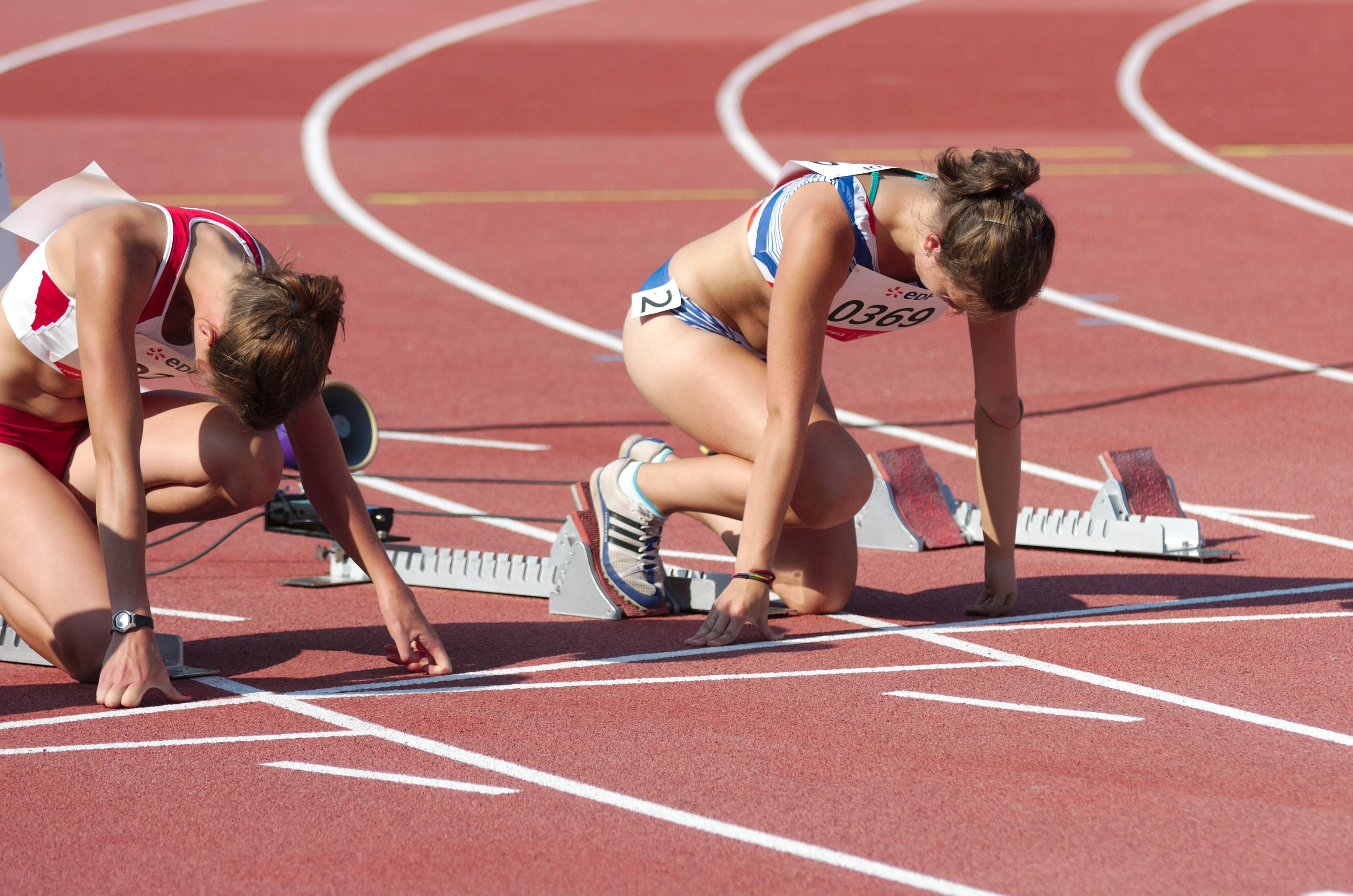 Katarzyna Piekart of Poland and Tereza Jakschova of Czech Republic during the Women's 100m - T46 second semifinal